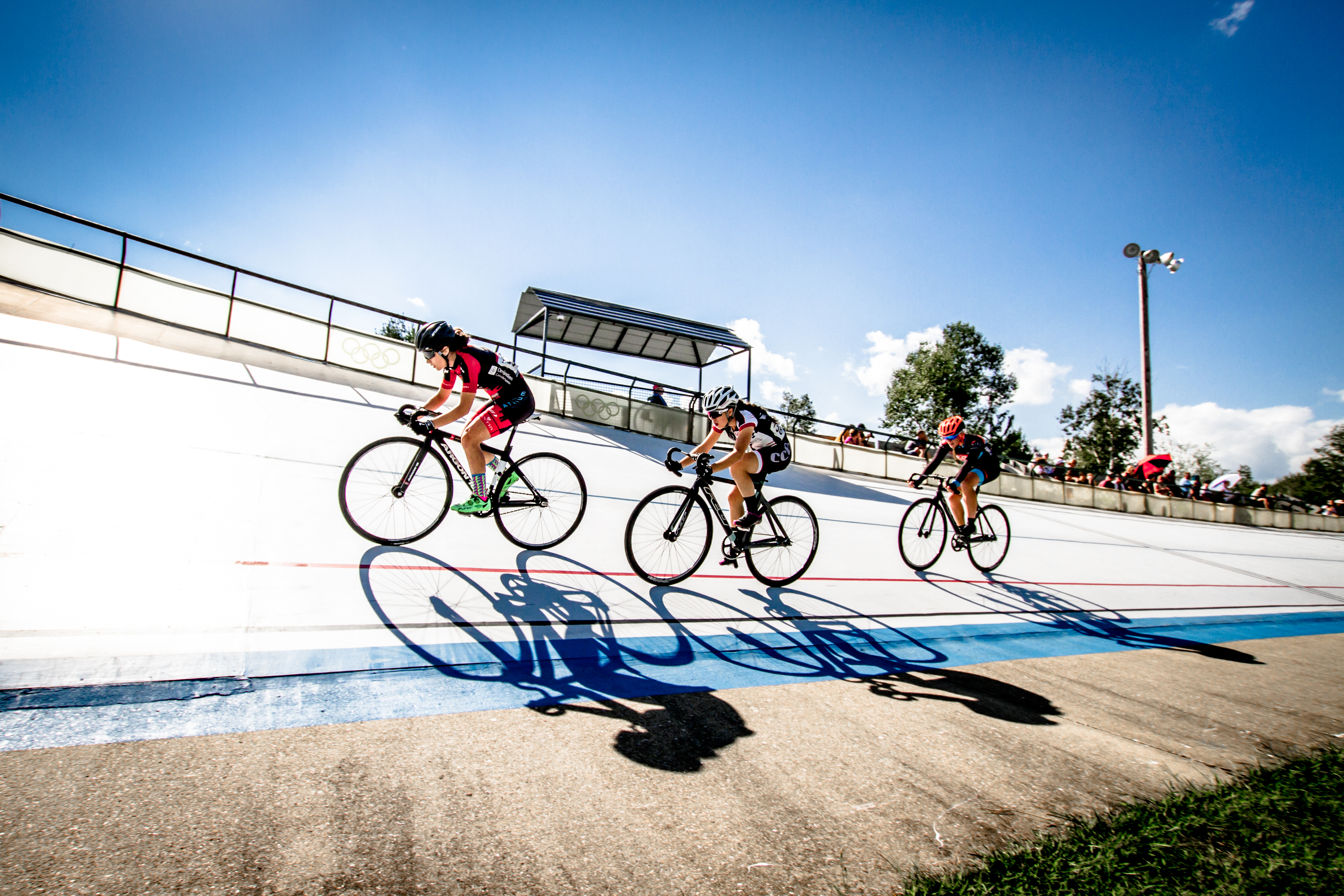 Simone Boilard, Josephine Peloquin & Lyse Ann Coffin. Quebec Provincial Track Cycling Championships, Bromont, August 26th & 27th, 2016..